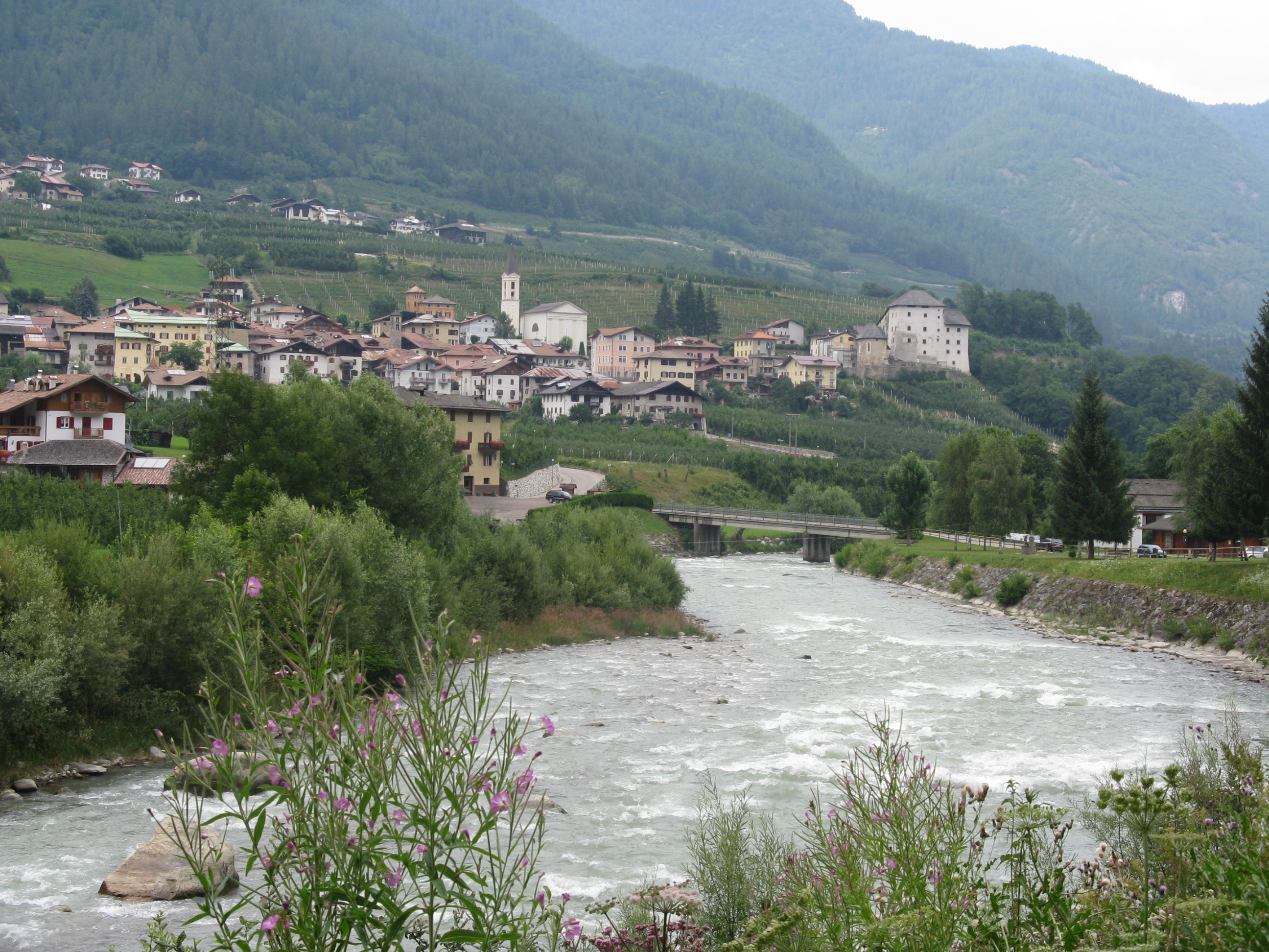 CALDES (LOC. LE CONTRE) FIUME NOCE ag. 09